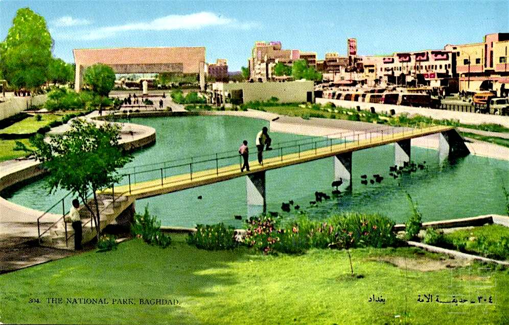 Umma Park, Bab Al-Sherji, Baghdad, 1960s